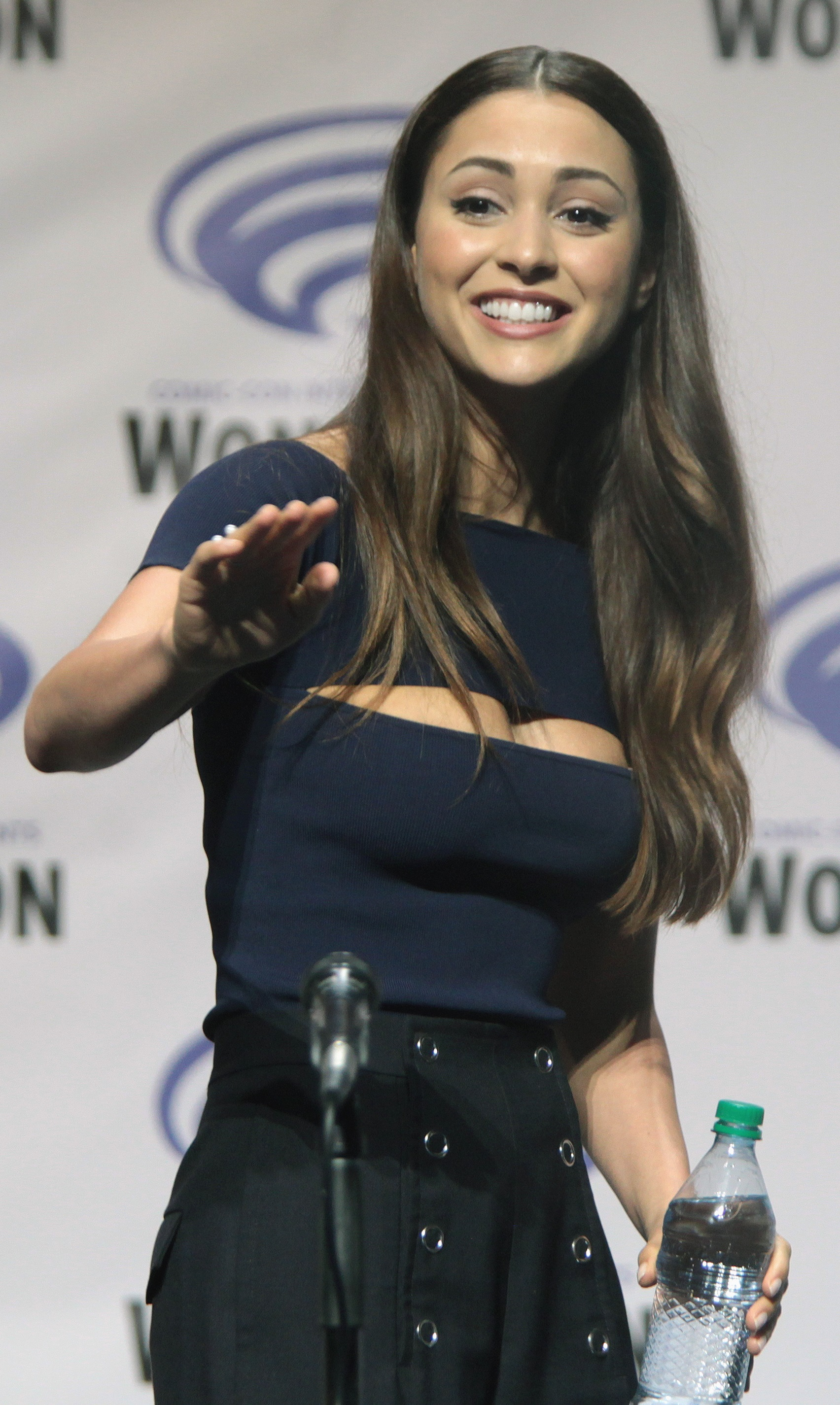 Lindsey Morgan at The 100 panel Wondercon 2016